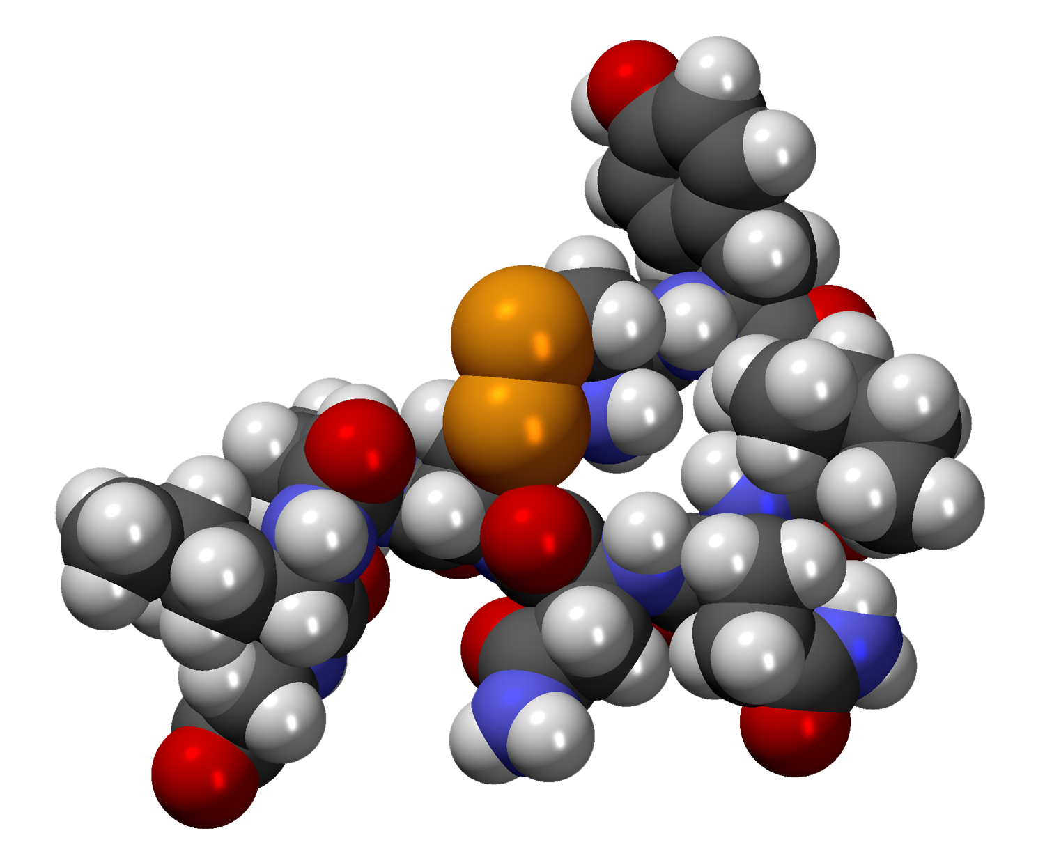 CPK model of the Oxitocin molecule C43H66N12O12S2. Model constructed using ACD/ChemSketch and Accelrys DS Visualizer.